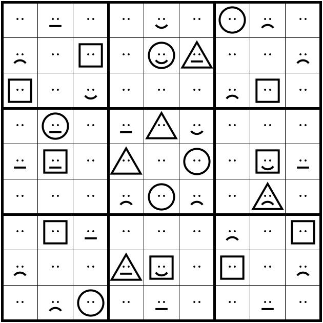 An example of a kaodoku puzzle (variation of sudoku)